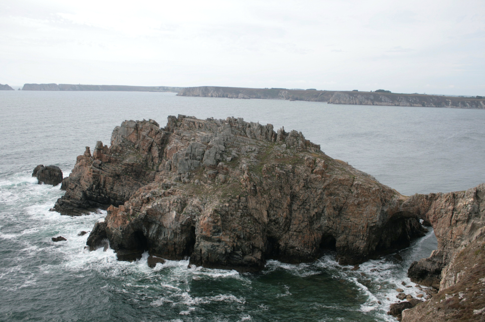 Pointe de Dinan